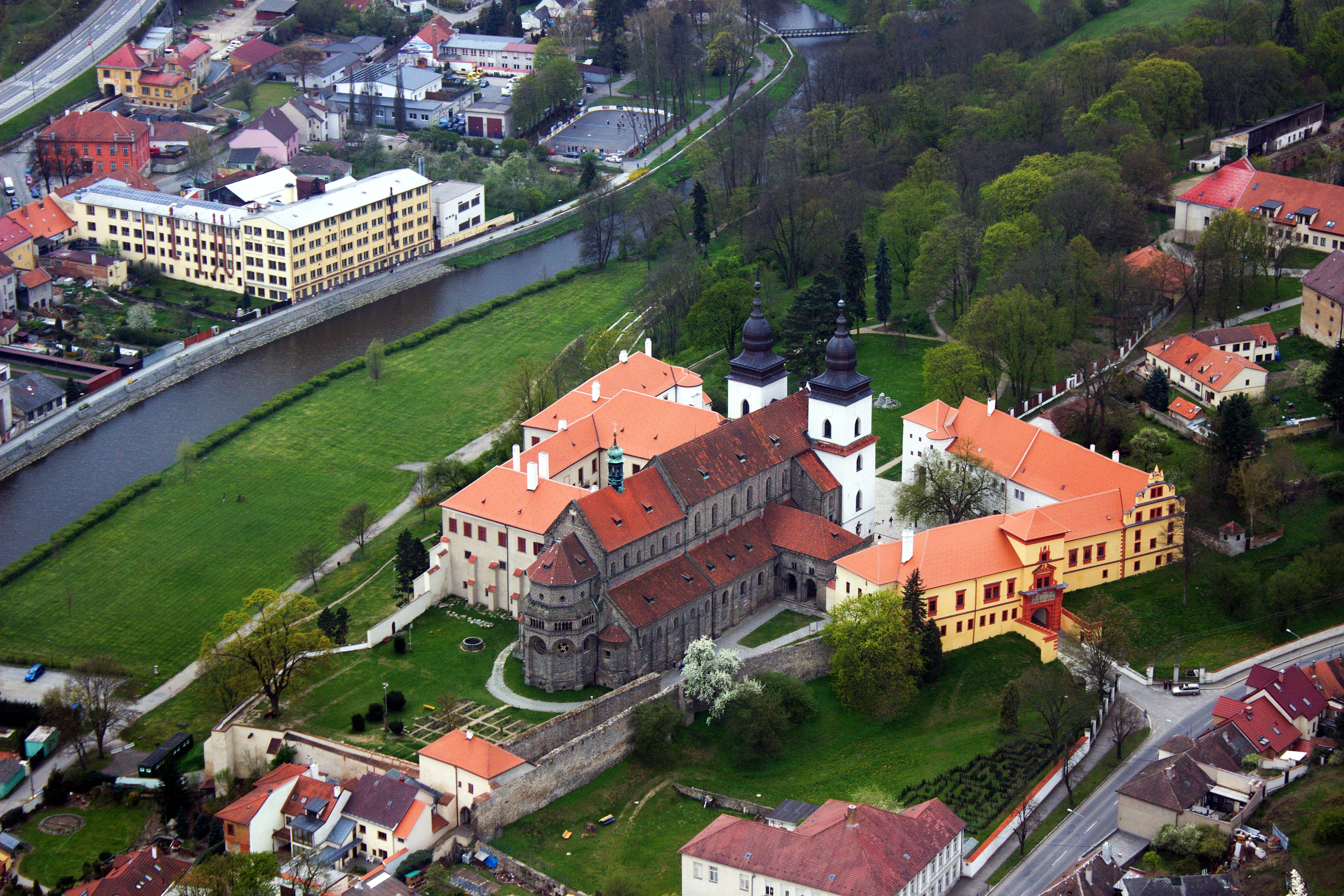 Aerial view of castle in Třebíč